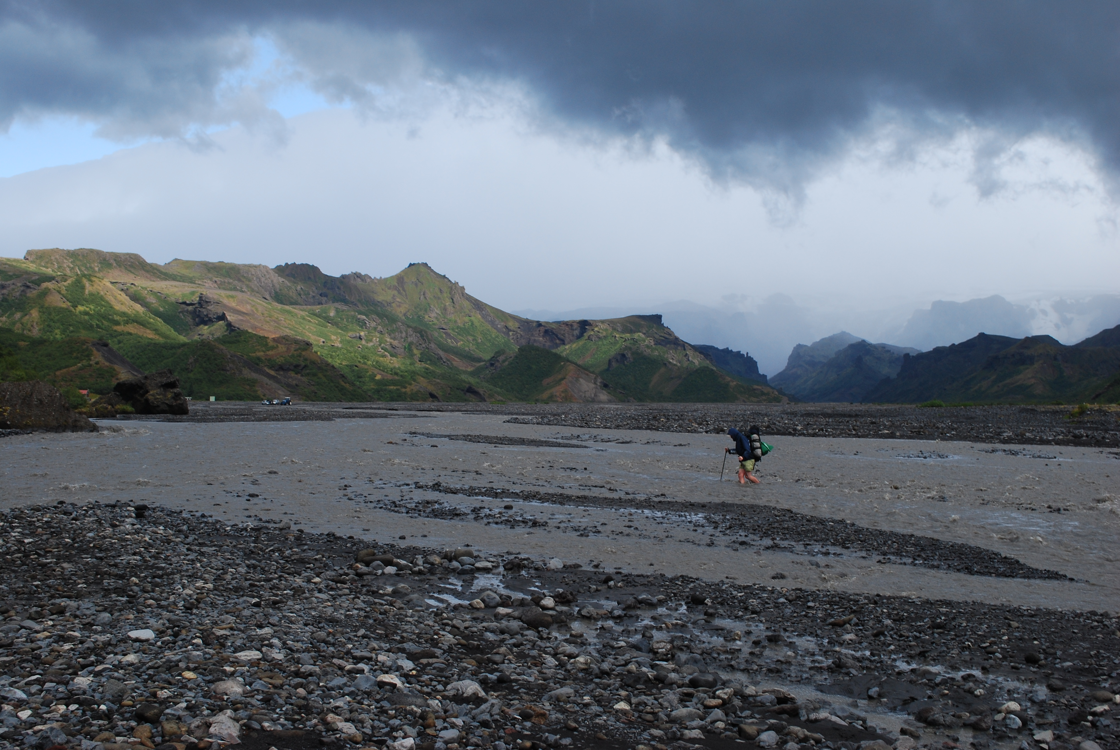 Wading of river from Skógafoss to the Landmannalaugar, Iceland